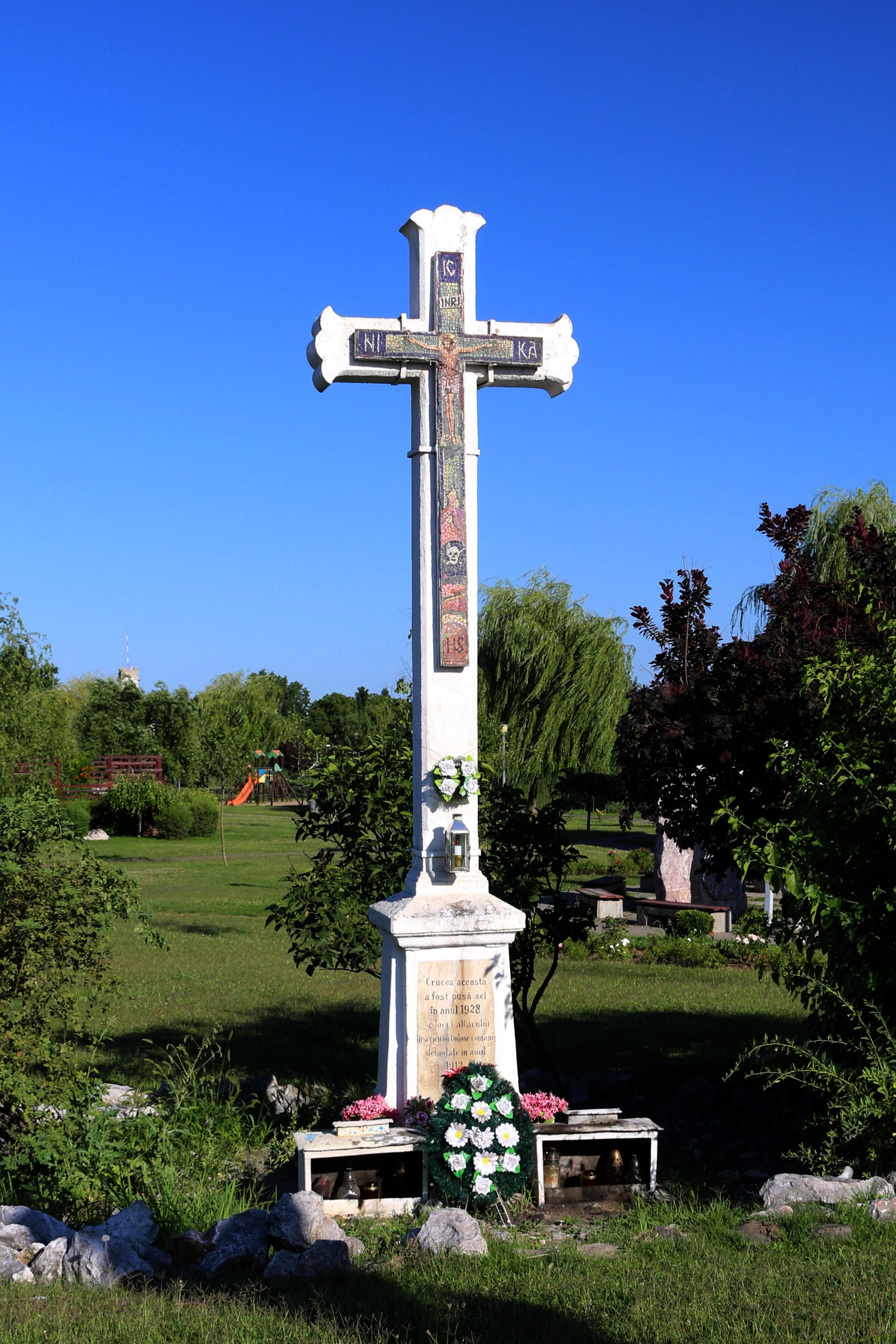 Cross on the site of the old "Saint Elias" church, Timișoara, România